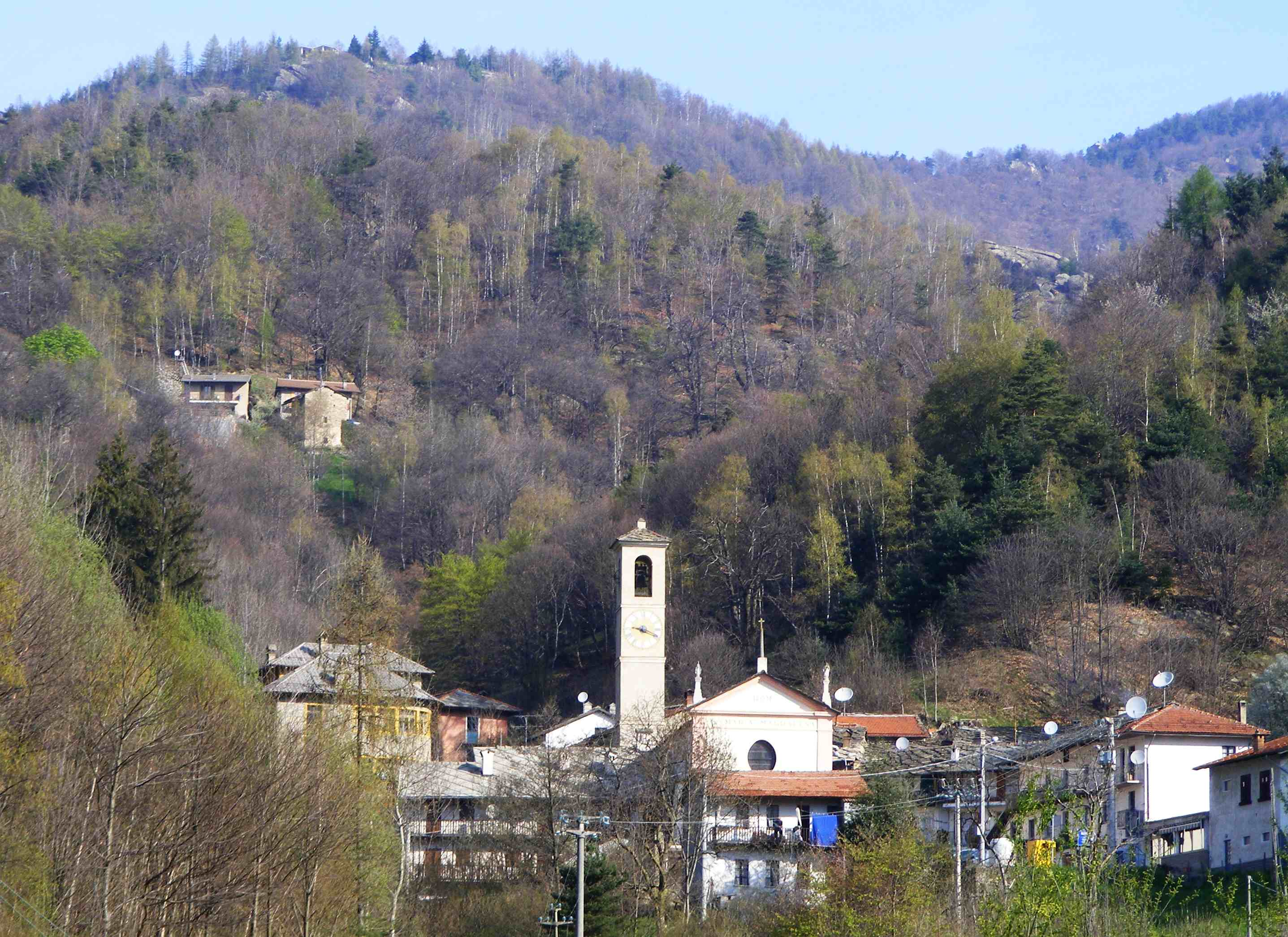 Talucco (Pinerolo, TO, Italy)